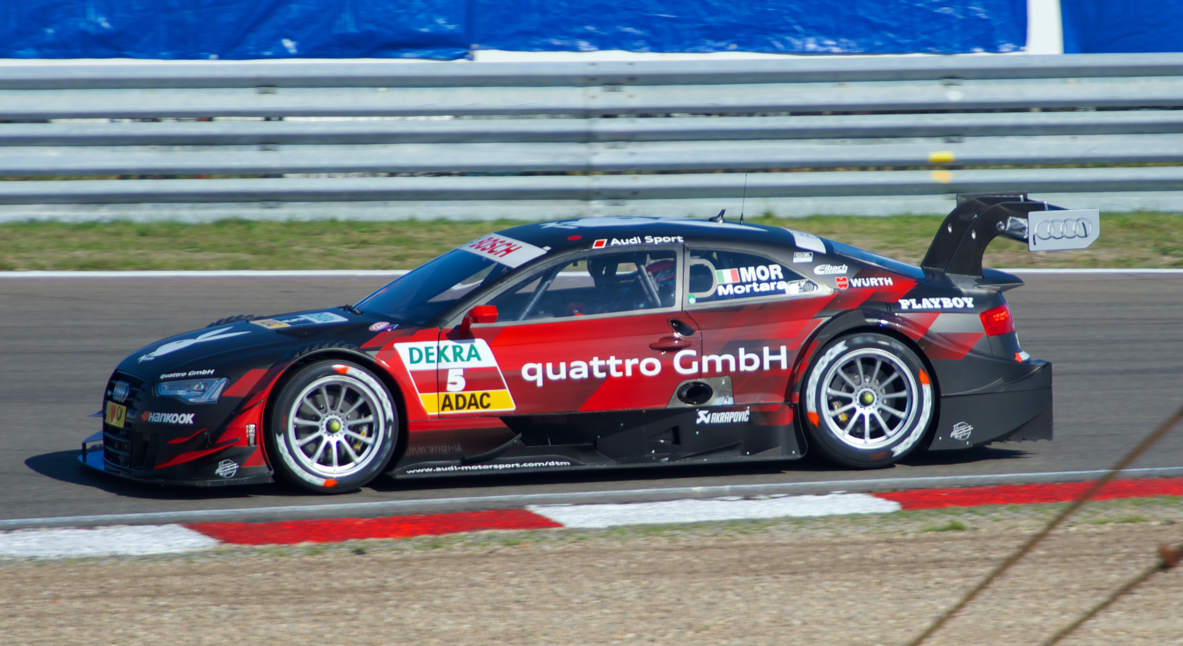 Audi RS5 DTM (R17) of Team Rosberg, DTM Zandvoort, 2013.